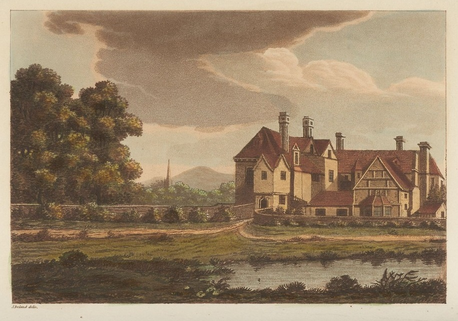 Illustration of Cloptan House by Samuel Ireland from Picturesque views on the upper, or Warwickshire Avon, from its sources at Naseby to its junction with the Severn at Tewkesbury: with observations on the public buildings, and other works of art in its vicinity, 1795. *59S-195, Houghton Library, Harvard University